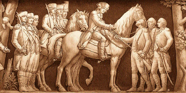 "Surrender of Cornwallis" - General George Washington, on horseback, receives the sword of surrender from Major General O'Hare, who represented Lord Cornwallis after his defeat at Yorktown, the last battle of the American Revolution.